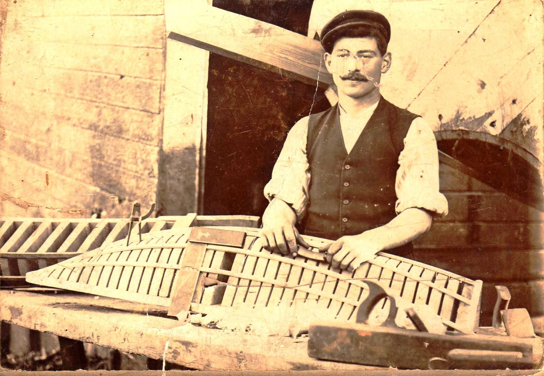 Just one of the thousands of images being added to Porthleven's online museum.